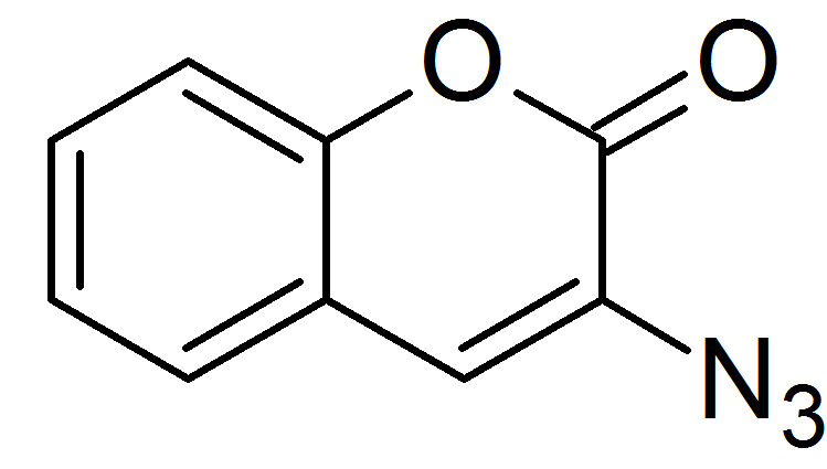 Structure of 3-Azidocoumarin